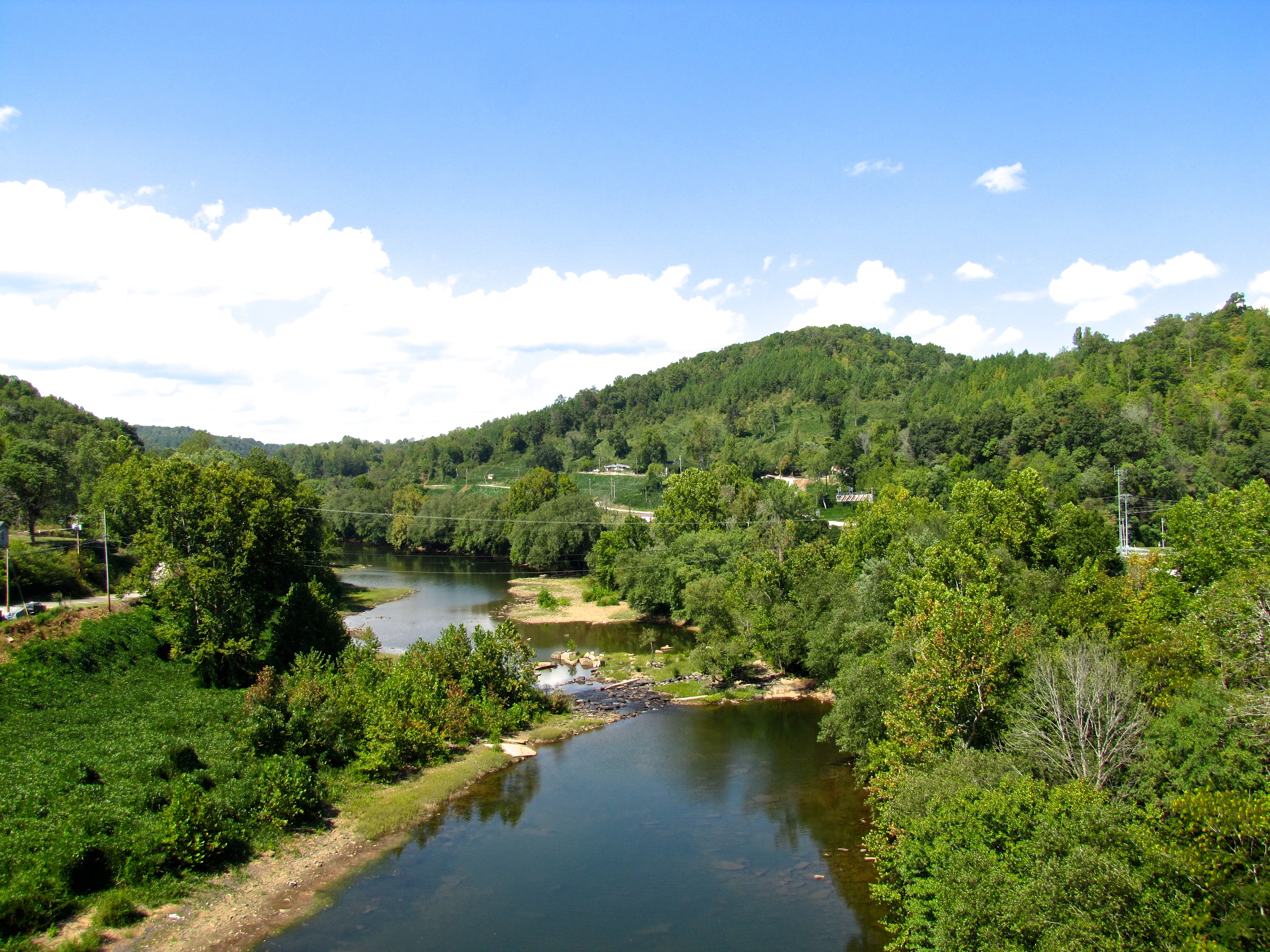 The Emory River, looking north from the SR 299 bridge in Oakdale, Tennessee, United States.